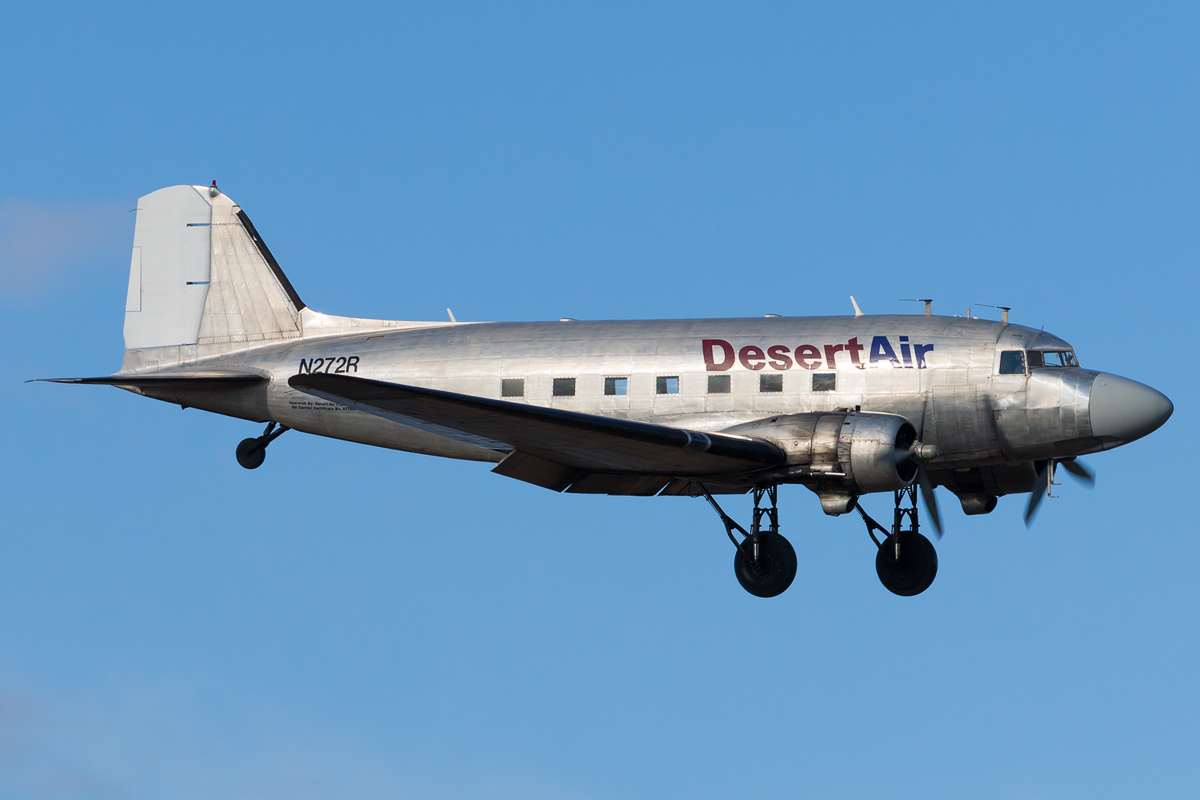 DesertAir Douglas DC-3 on finals at Anchorage